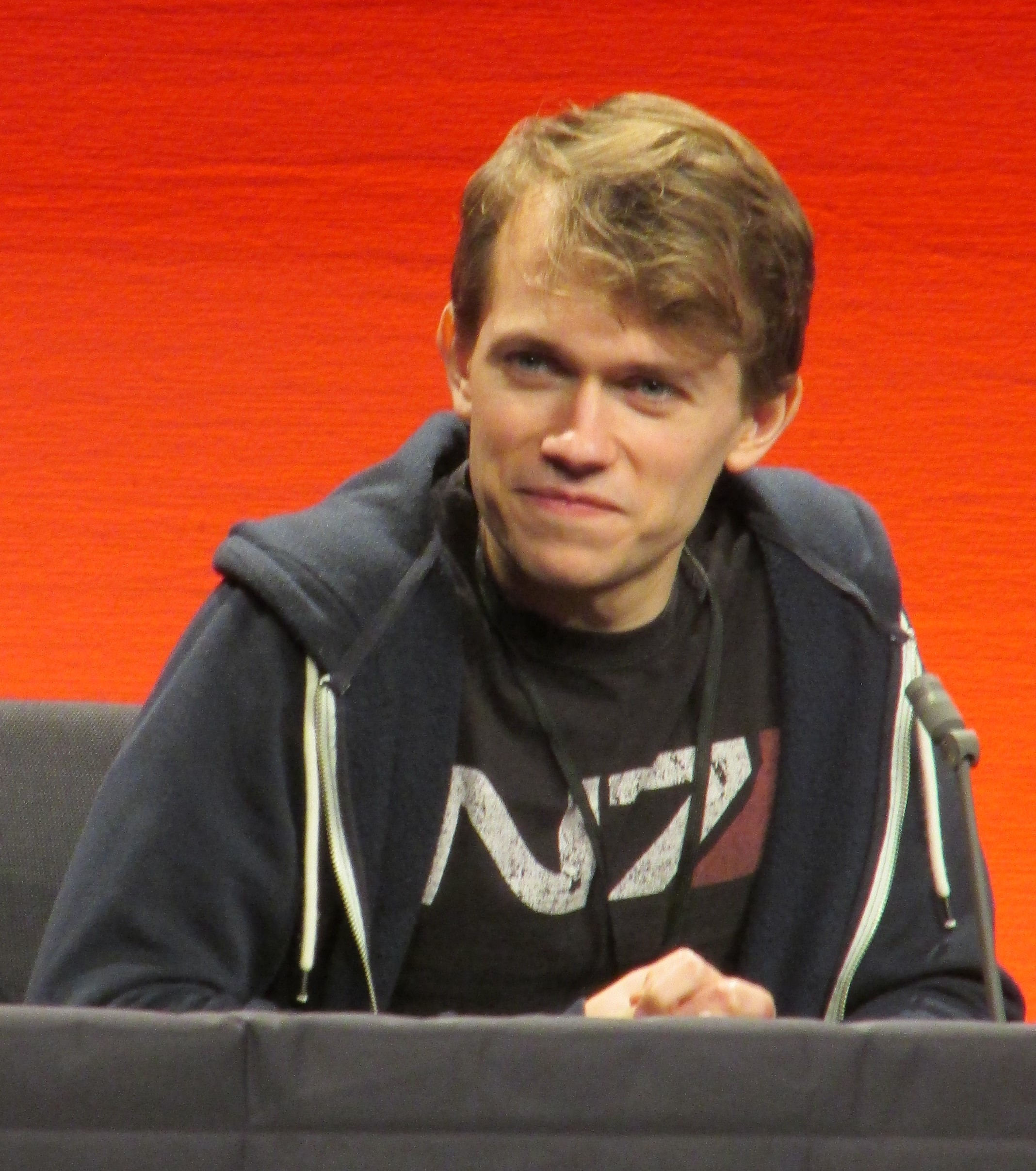 Greg Austin at MCM Comic Con in Liverpool, 2017